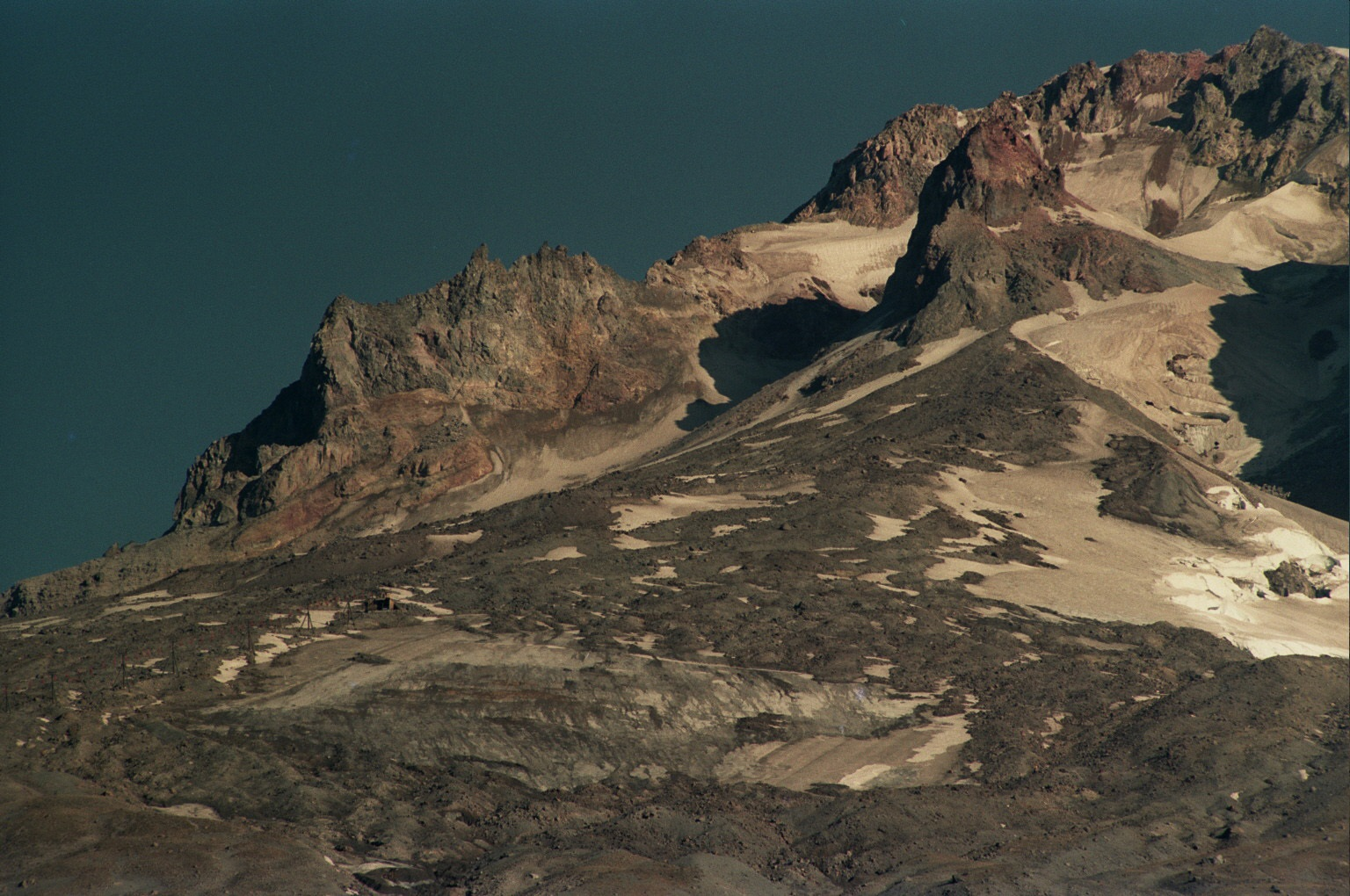 Upper south slope of Mt. Hood, Oregon, USA, from about the 6,000-foot level - zoomed in to provide detail of the rocks.